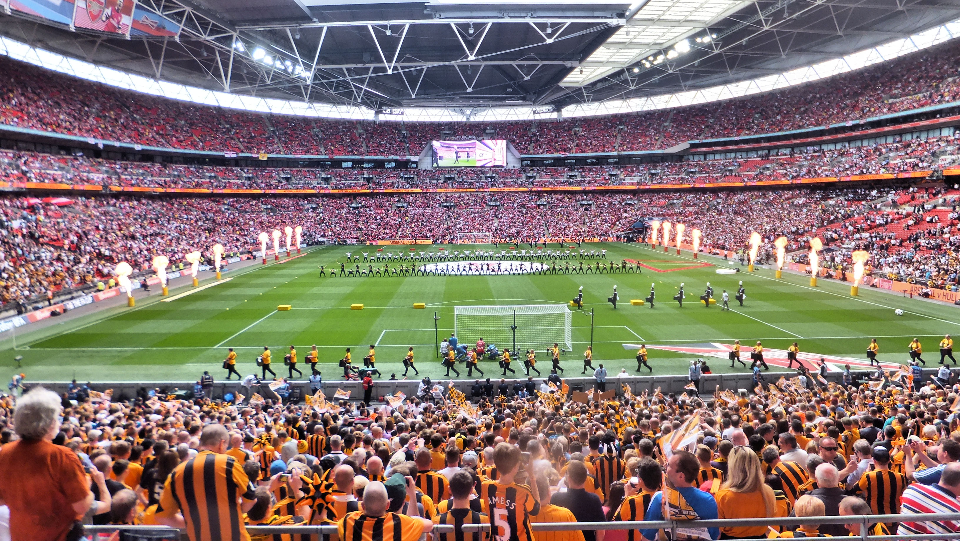 Pre match entertainment